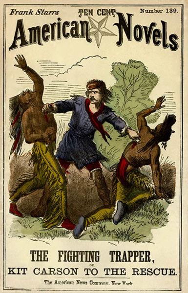 Taken from the Ukranian wiki Cover of The fighting trapper : or, Kit Carson to the rescue. A tale of wild life on the plains, Edward Sylvester Ellis, New York : Frank Starr and Co., 1874. OCLC 6455351